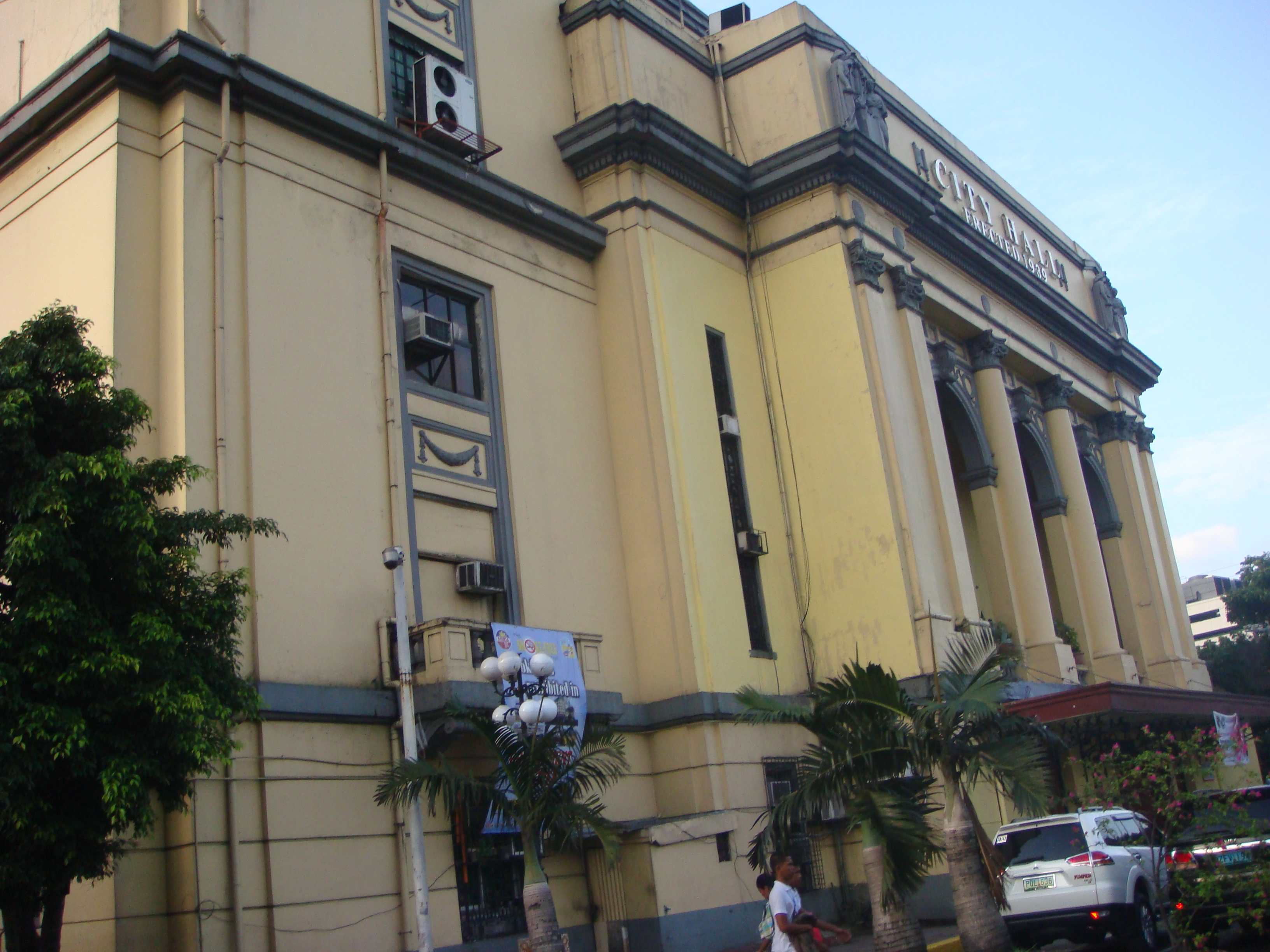 Manila City Hall